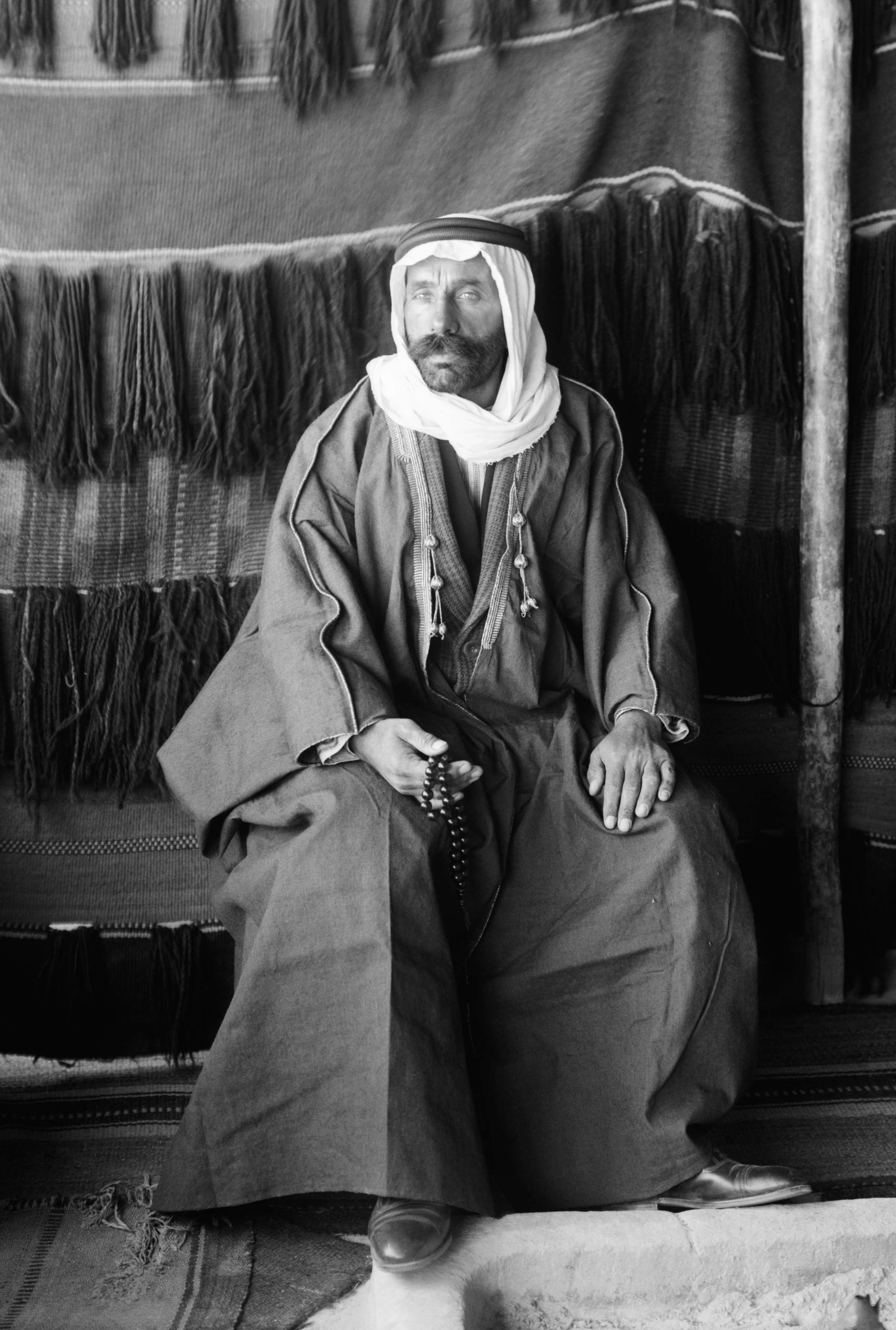 El-Azrak & Wadi Sirhan in the Arabian desert. Druse [i.e., Druze] political refugees from Jebel Druse (The Hauran). Sheikh Sultan el-Atrash, leader of Druse revolt in October, 1925.